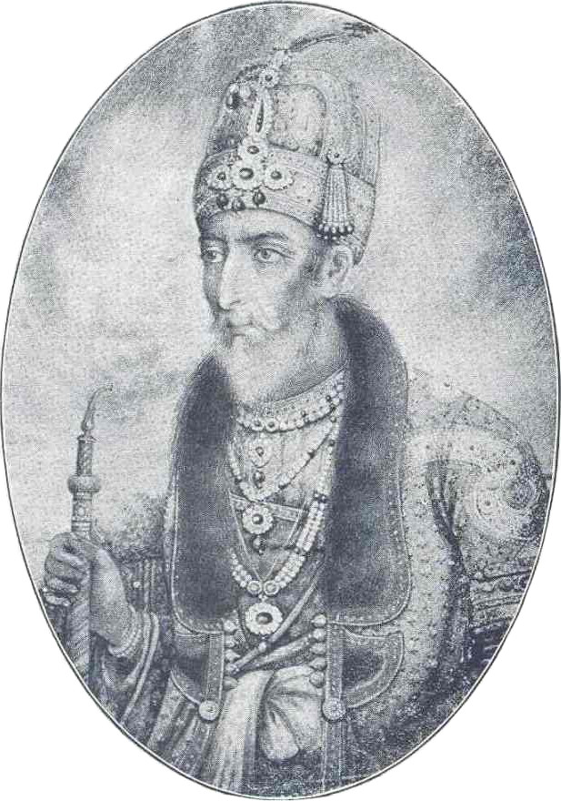 Bahadur Shah II, also known as Zafar.